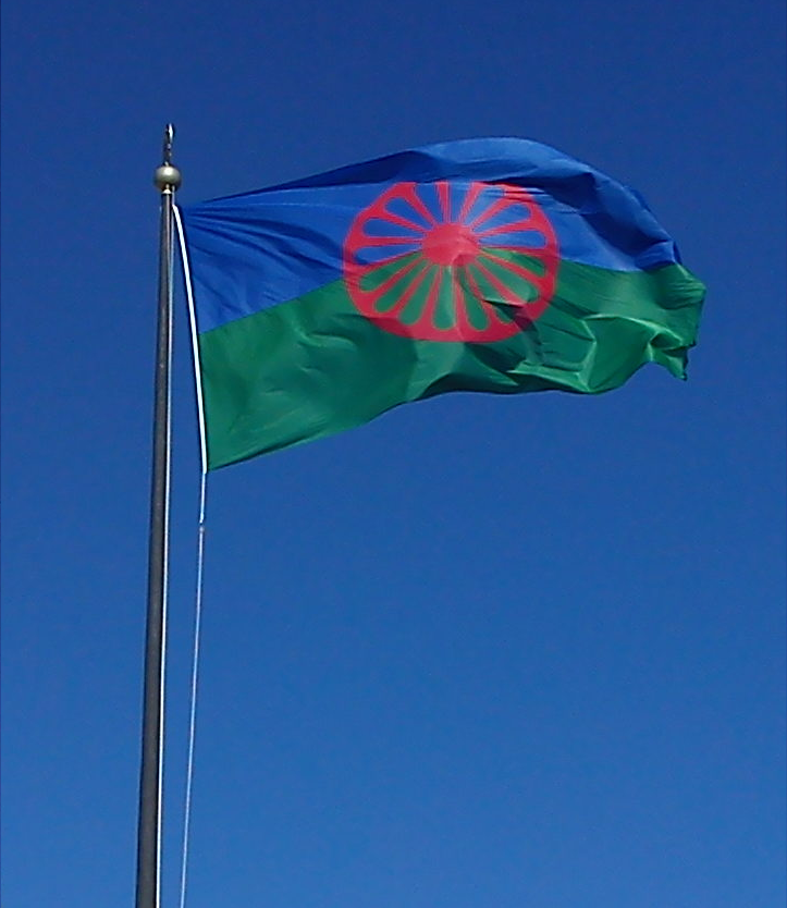 A hoisted Romani flag.